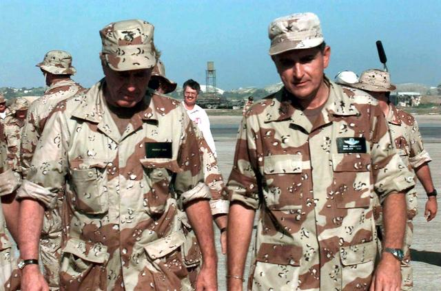 Image uploaded from ID: DDSD0000934 Released to Public Service Depicted: Air Force US President George H. W. Bush, left and wearing a desert camouflage BDU shirt and cap, walks toward the camera with US Air Force BGEN Thomas Mikolajcik, Commander AFFOR, right. Other members of the Air Force as well as the media are seen in the background. The President was visiting Somalia to witness first hand the efforts of Task Force Somalia that is in direct support of Operation Restore Hope. Location: MOGADISHU AIRPORT, SOMALIA (SOM) Date Shot: 01 JAN 1993 Camera Operator: UNKNOWN